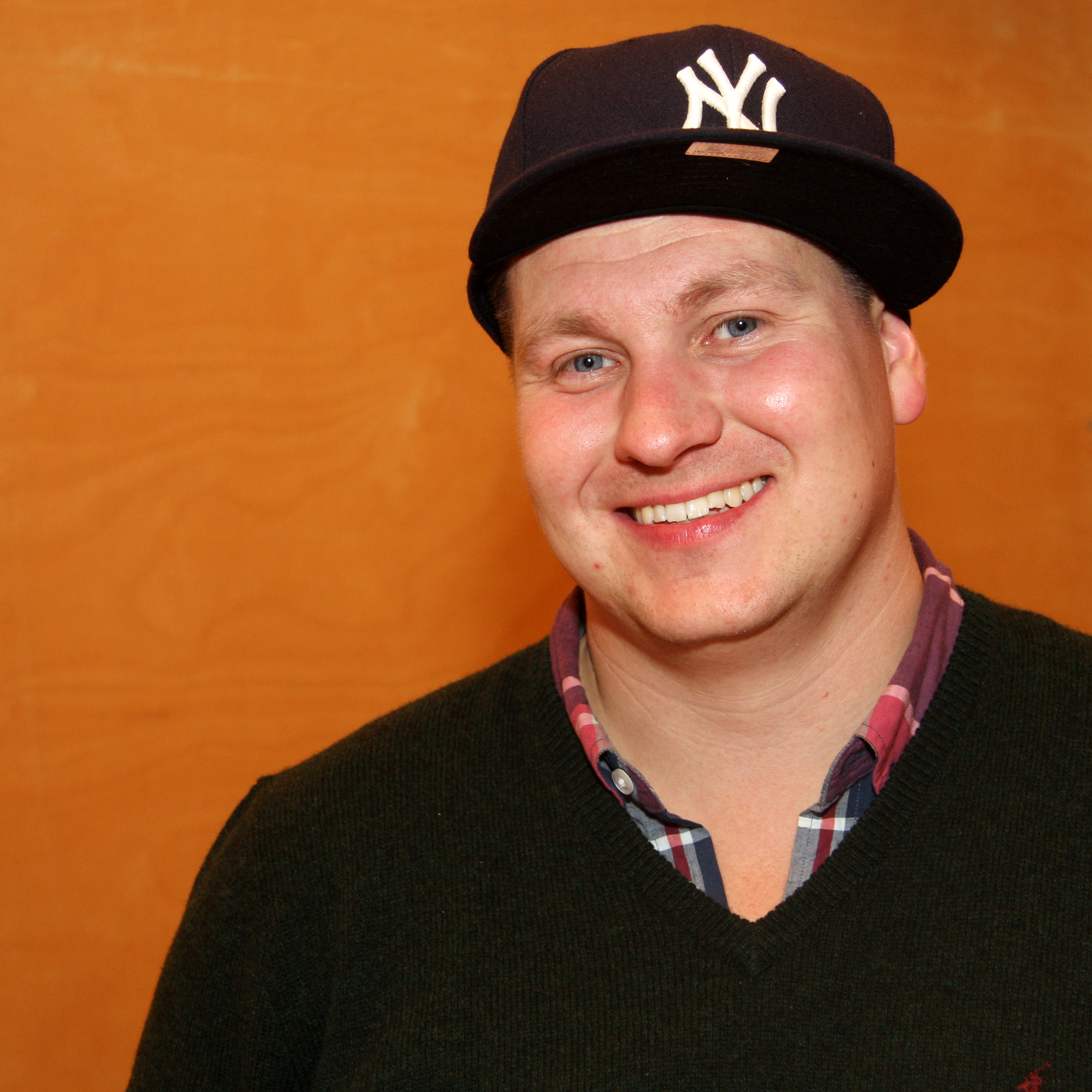 Swedish soul singer Samuel Ljungblahd.